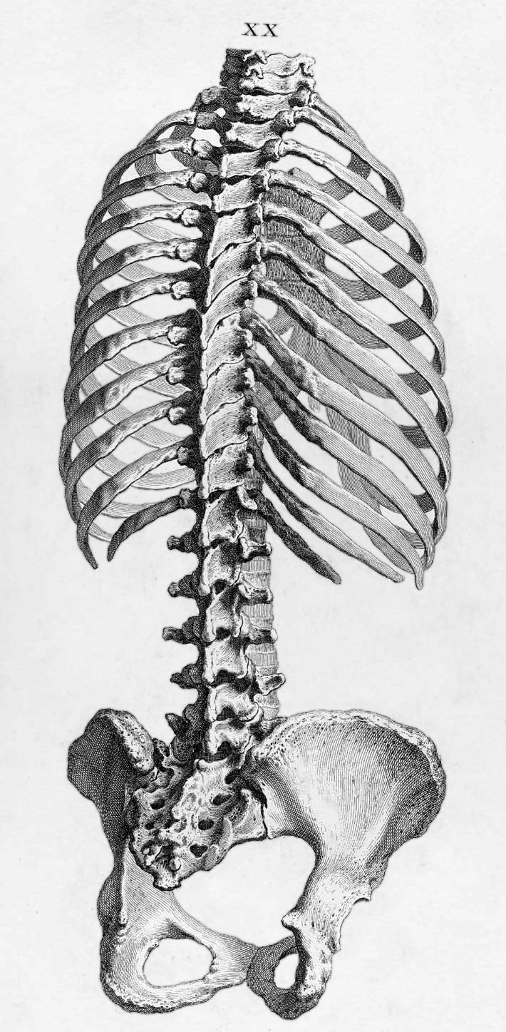 William Cheselden: Osteographia, or The anatomy of the bones. Uploader=Kuebi 17:54, 2 April 2007 (UTC)